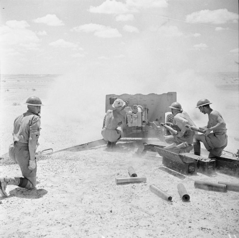 The British Army in North Africa 1942 A British 6-pdr anti-tank gun in action in the desert, 3 September 1942.